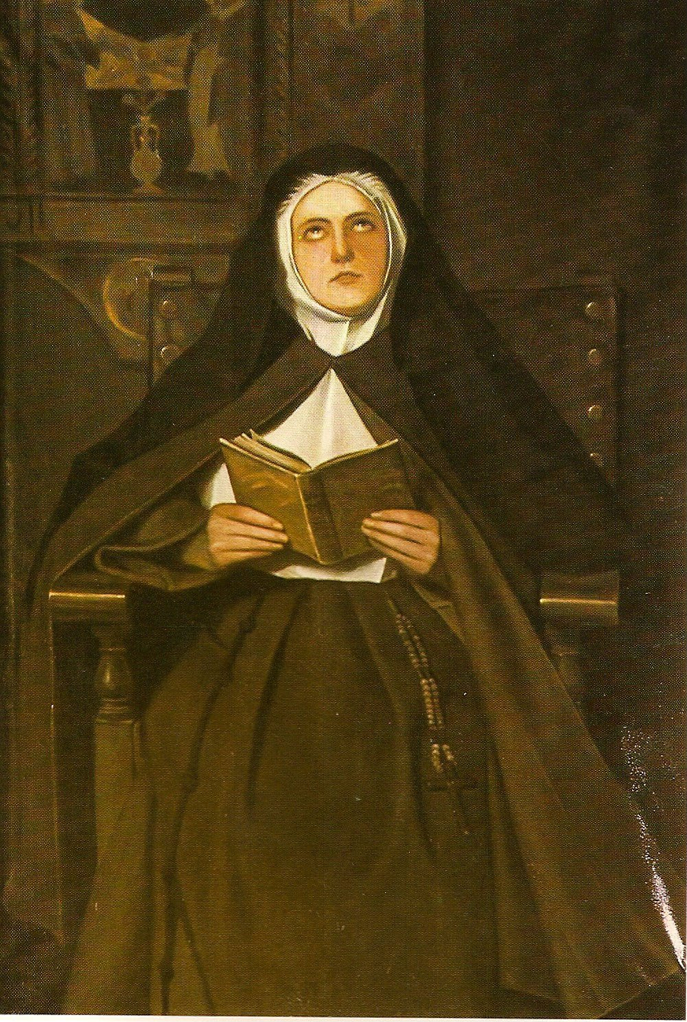 Portrait of Angela Serafina Prat, 1896, at the Town Council of Manresa, Galeria de Manresans Il·lustres